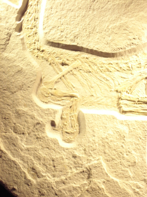 Fossil theropod (gen. nov. sp. nov.) from the plattenkalk of Peinten, Germany.